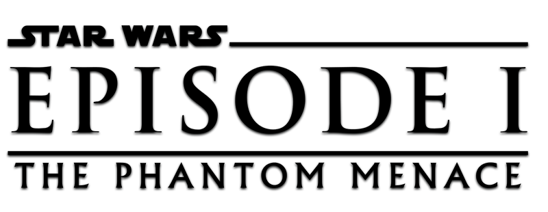 Star Wars: Episode II – Attack of the Clones logo